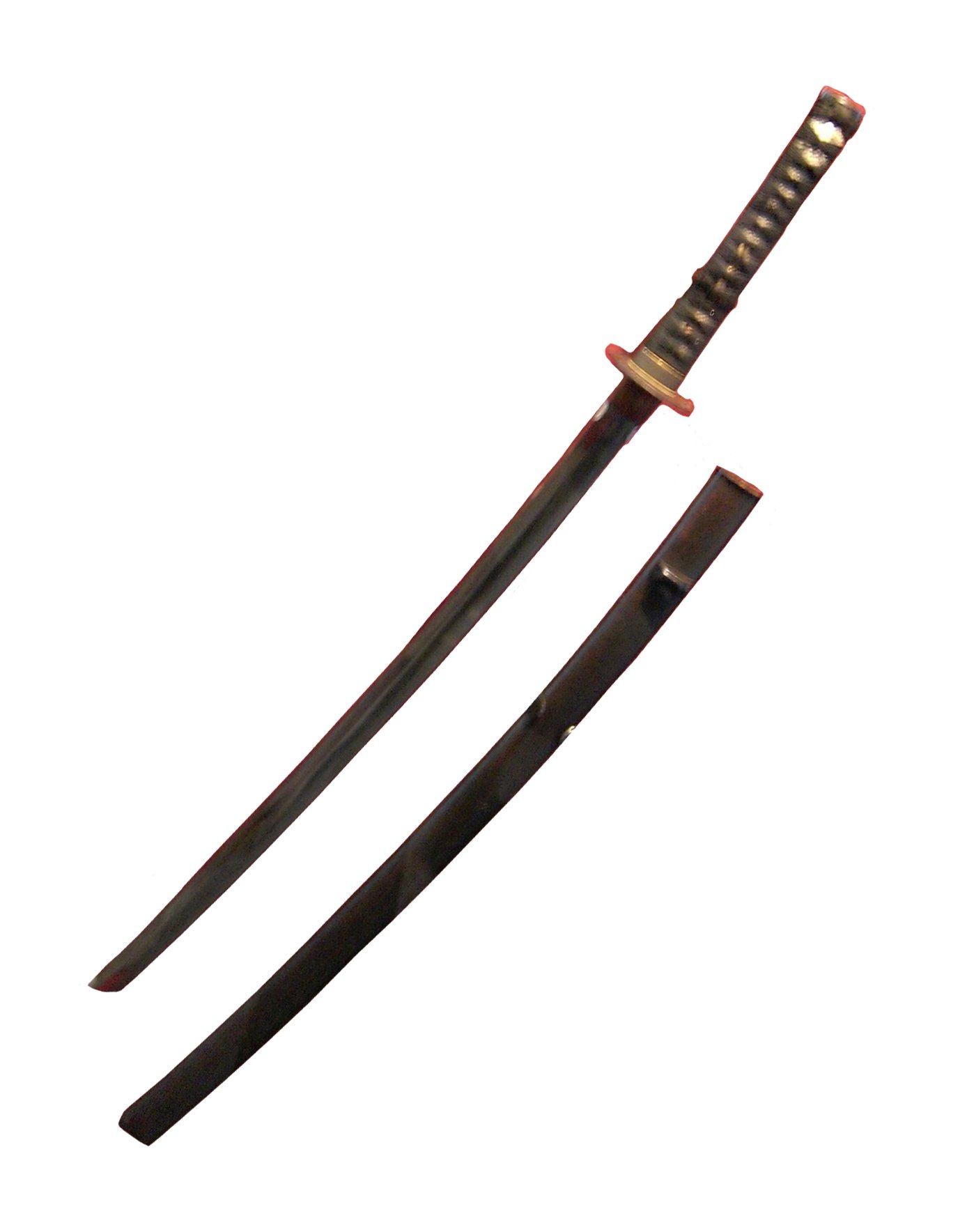 Katana. Dresden, Zwinger-Museum. 16th or 17th century.